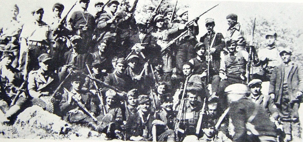 Formation of the partisan detachment "Dame Gruev", June 6, 1942, near the village of Zlatari, Prespa. This media file is produced by Wikipedian in Residence in Category:Wikipedian in Residence at DARM in 2016.